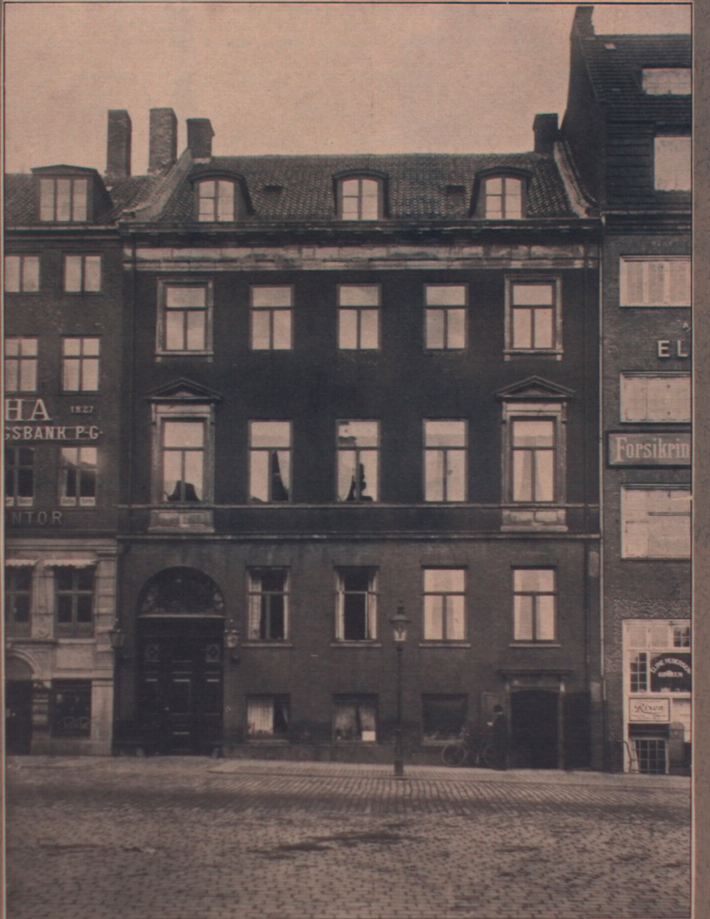 Gammeltorv 14 in Copenhagen, Denmark